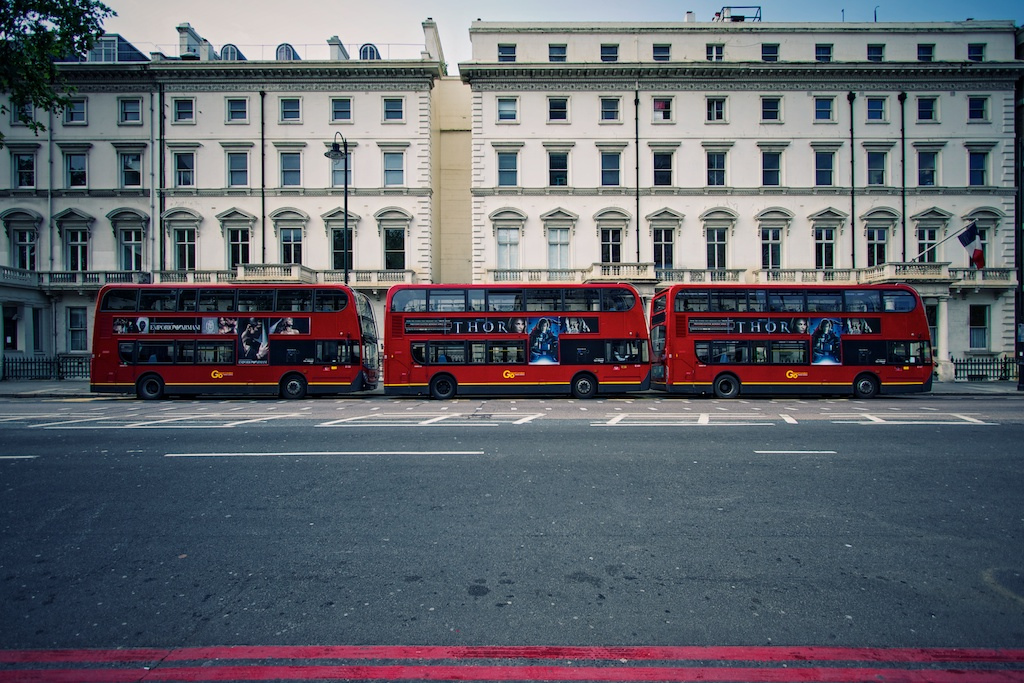 A row of London General buses outside the Lycée Français Charles de Gaulle school on Cromwell Road (the A4), South Kensington, Royal Borough of Kensington and Chelsea, London.